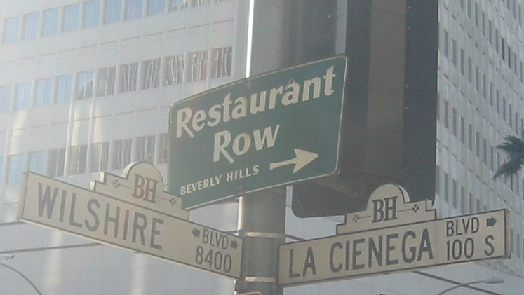 Restaurant Row street sign in Beverly Hills, CA. Corner of Wilshire Blvd and La Cienega Blvd